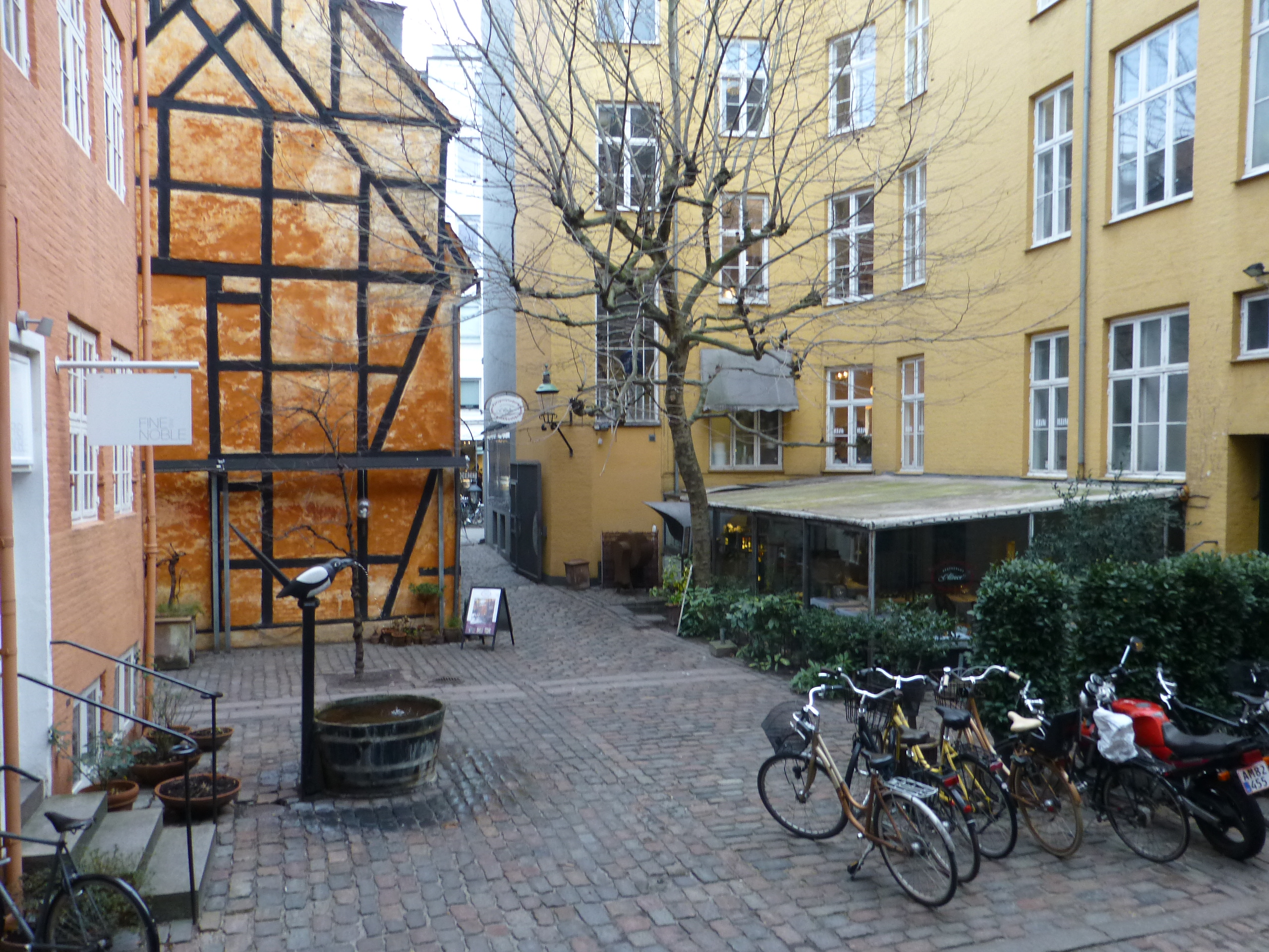 The passageway Pistolstræde in Indre By in Copenhagen. Square unofficial known as Pistoltorv.